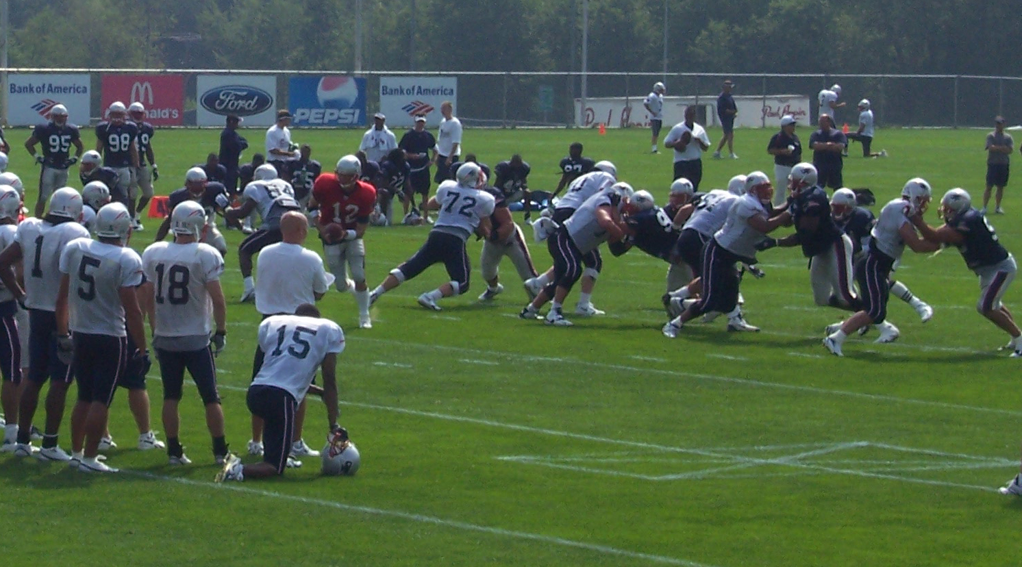 The New England Patriots practice during the first practice of their 2006 training camp.